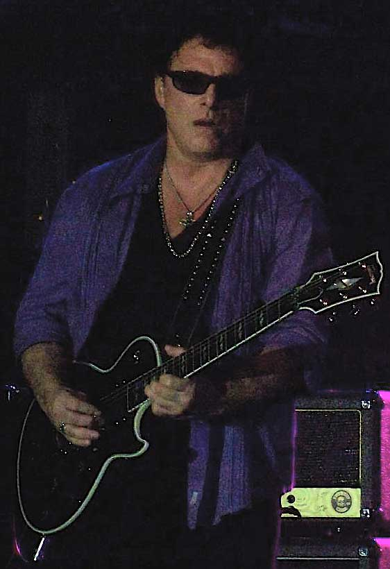 Neal Schon of Journey in Madrid, "La Riviera", on 23 March 2007